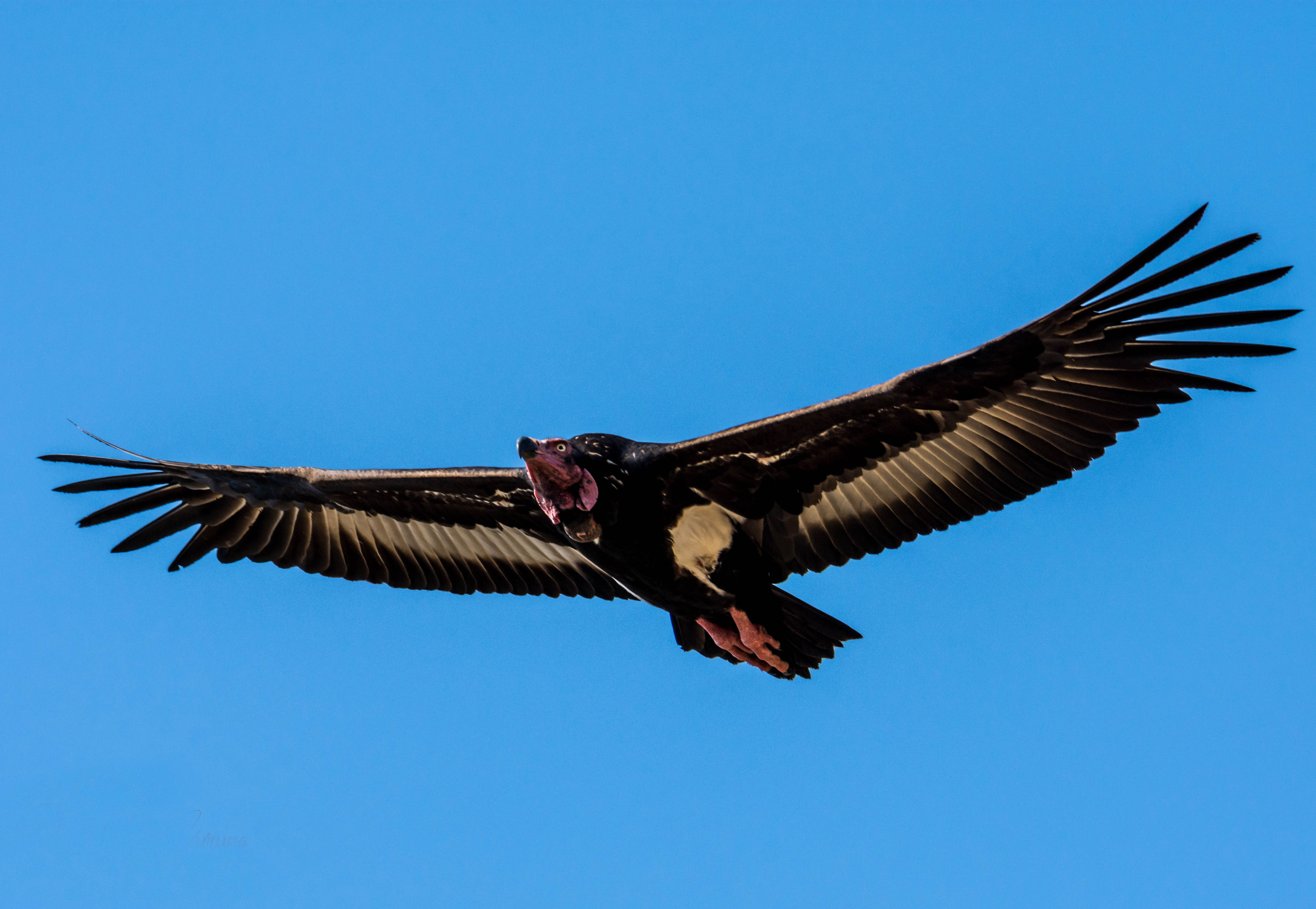 Red-headed vulture (Sarcogyps calvus) in flight.